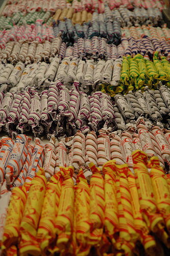 "Swedish candy 'polkagrisar' for sale in Gränna, the home of the 'polkagris'." May, 2008, photo by morberg (Flikr), attribution required. Source.